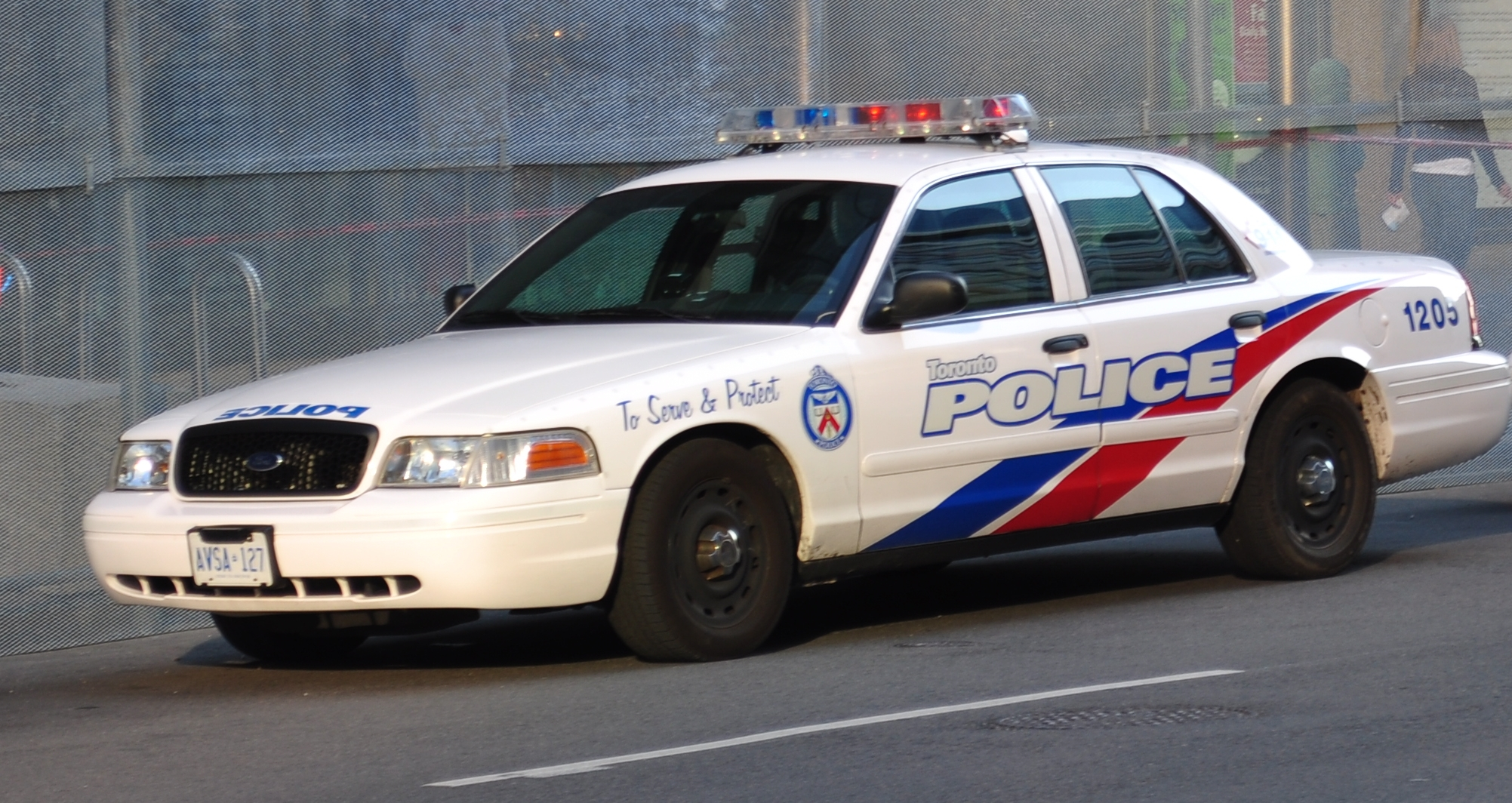 Toronto Police Car.